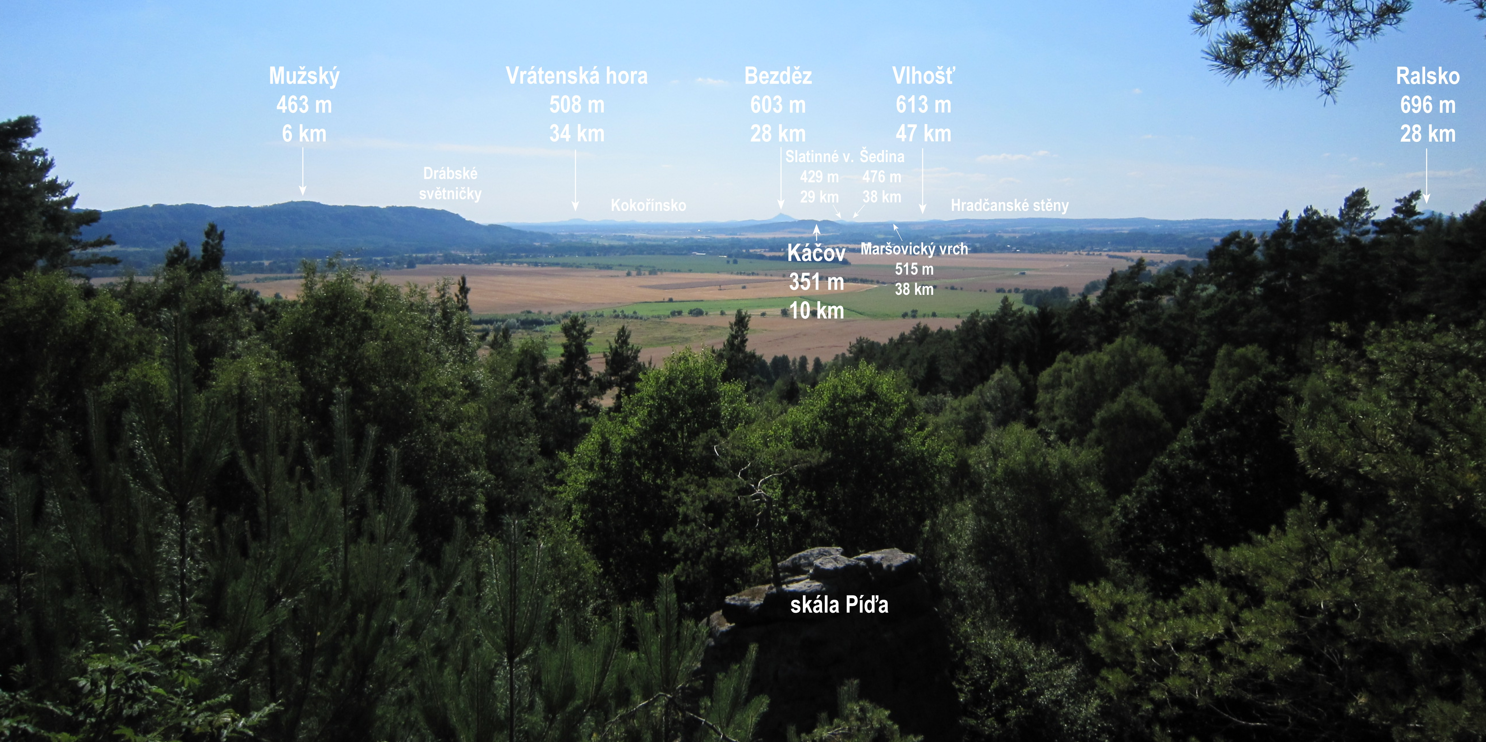 Notice in photograhy.